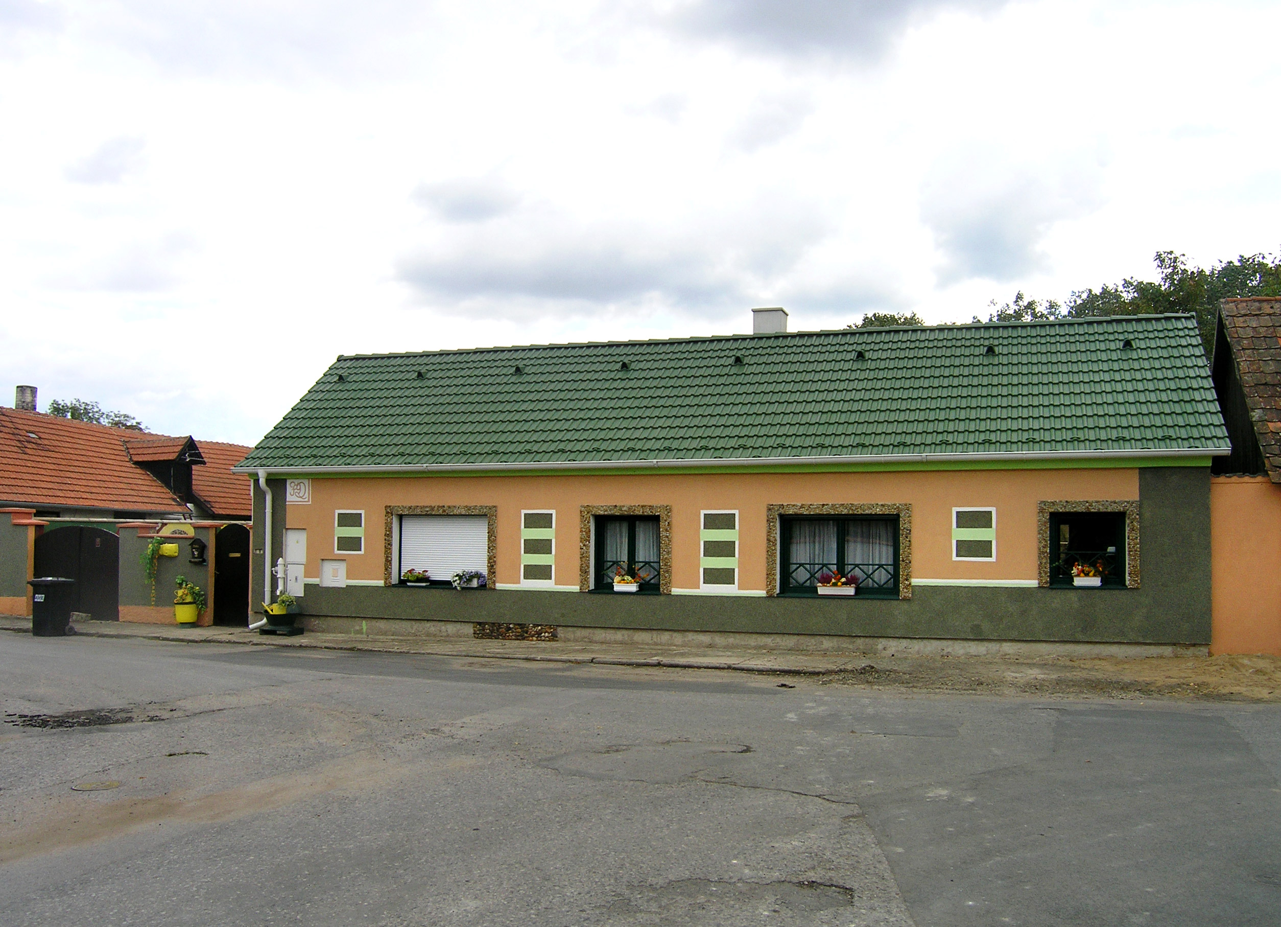 North part of Záryby village, Czech Republic